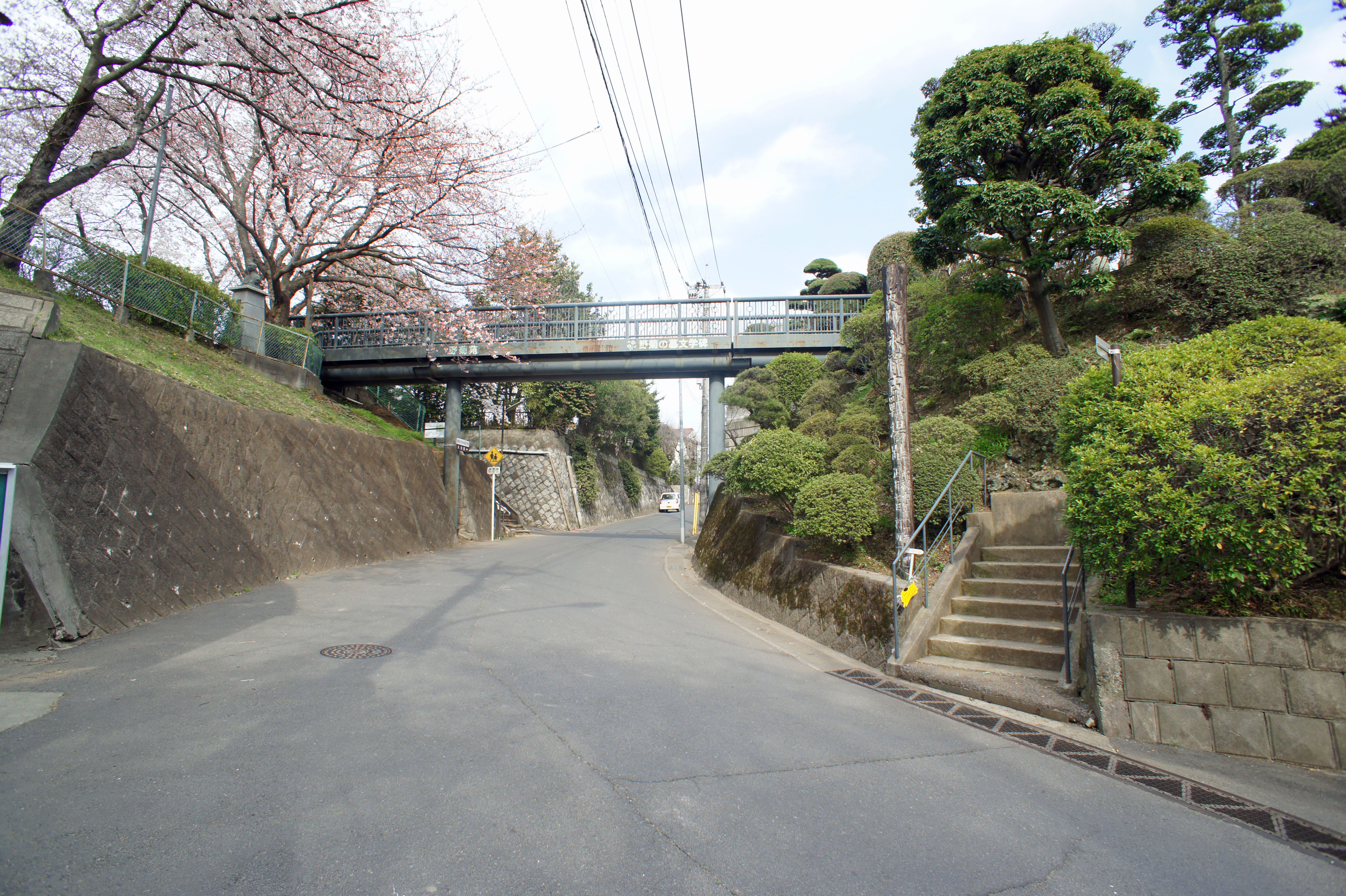 Osaka, a sloping road in Yakiri, Matsudo, Chiba Prefecture, is the site of a hard-fought battle of the Battle of Kōnodai.